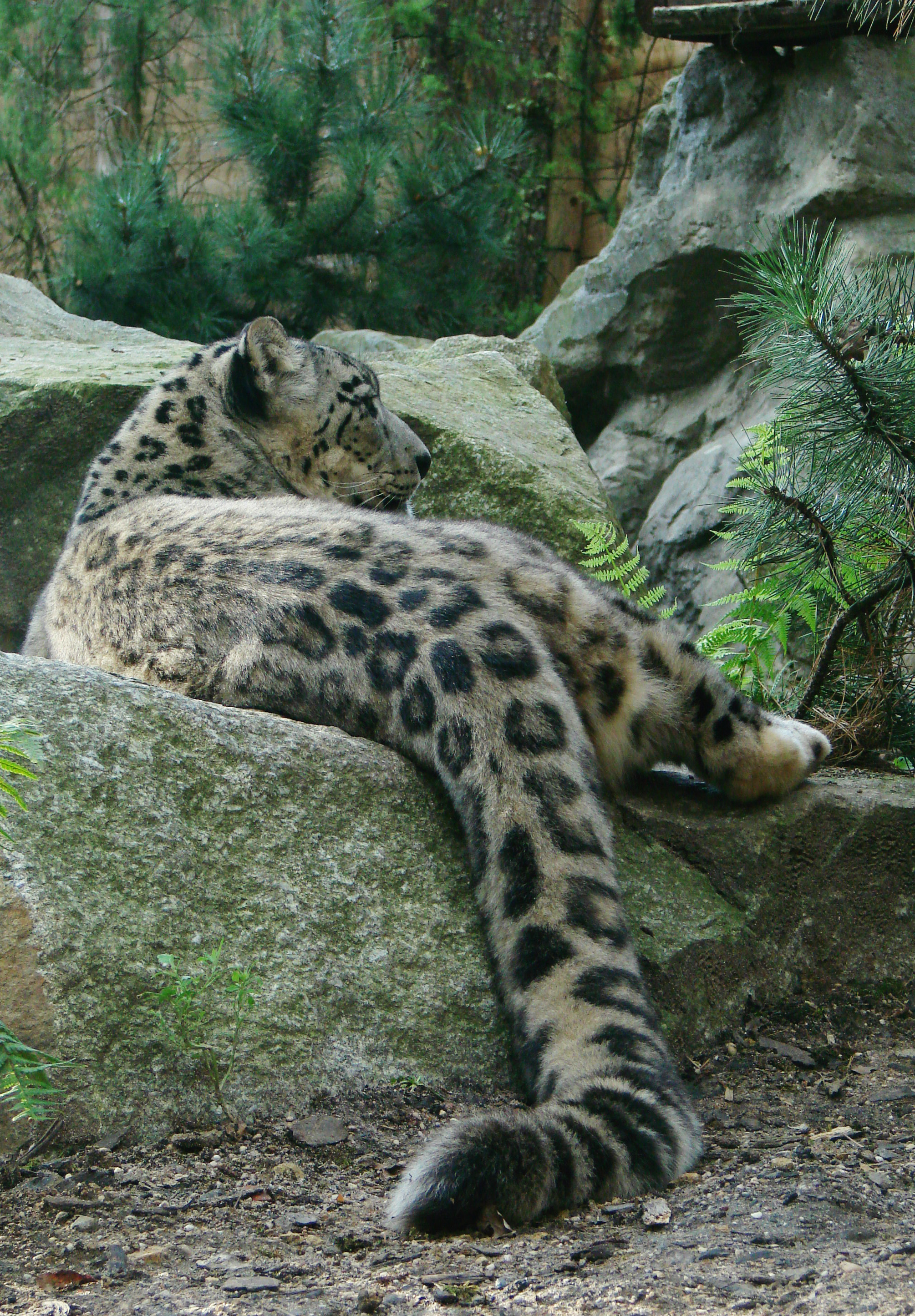 Snow leopard (Uncia uncia), zoo d'Amnéville, France.